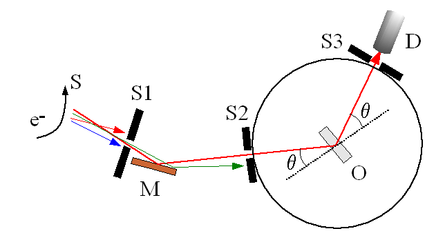 Transmission geometry in x-ray diffraction, a simple view